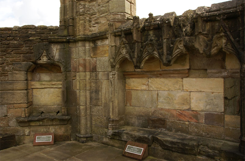 Crossraguel Abbey (Scotland) - detail church: piscina and sedilia